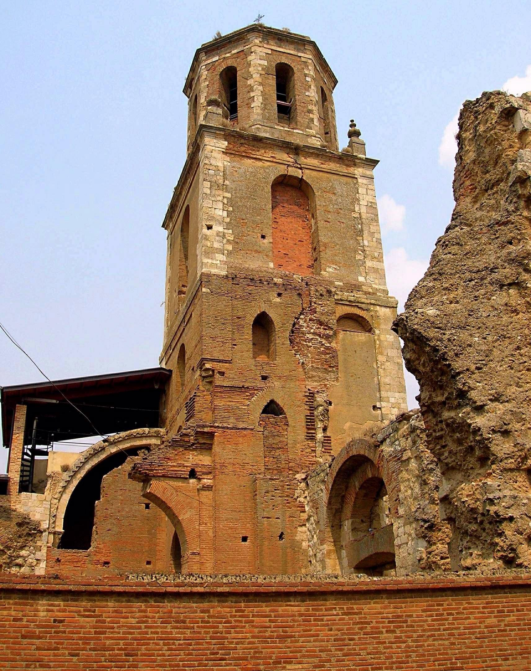 Torre del Reloj, antiguo campanario de la iglesia del Real Monasterio de San Benito, en Sahagún (León, España)